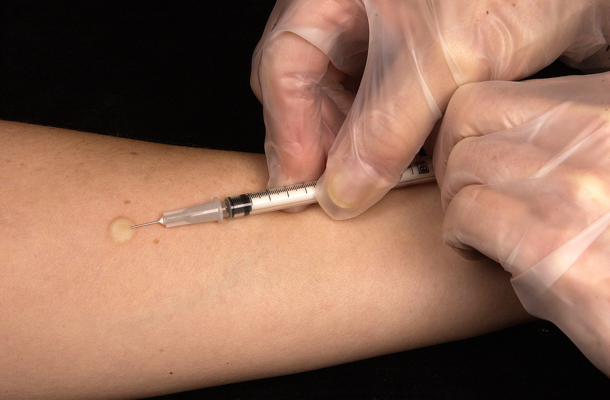 This technician is in the process of correctly placing a Mantoux tuberculin skin test in this recipient’s forearm, which will cause a 6mm to10mm wheal, i.e., a raised area of skin surface, to form at the injection site. The Mantoux tuberculin skin test is used to evaluate people for latent tuberculosis (TB) infection. In the United States, this skin test consists of an intradermal injection of exactly one tenth of a milliliter (mL) of tuberculin, which contains 5 tuberculin units. Correct placement of this intradermal injection involves inserting the needle bevel slowly at a 5° to 15° angle. The needle bevel is advanced through the epidermis, the superficial layer of skin, approximately 3mm so that the entire bevel is covered and lies just under the skin surface. A tense, pale wheal that is 6mm to 10mm in diameter appears over the needle bevel.